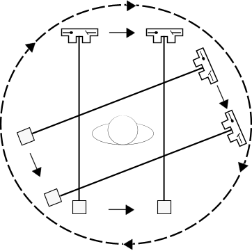 Computed tomography first generation